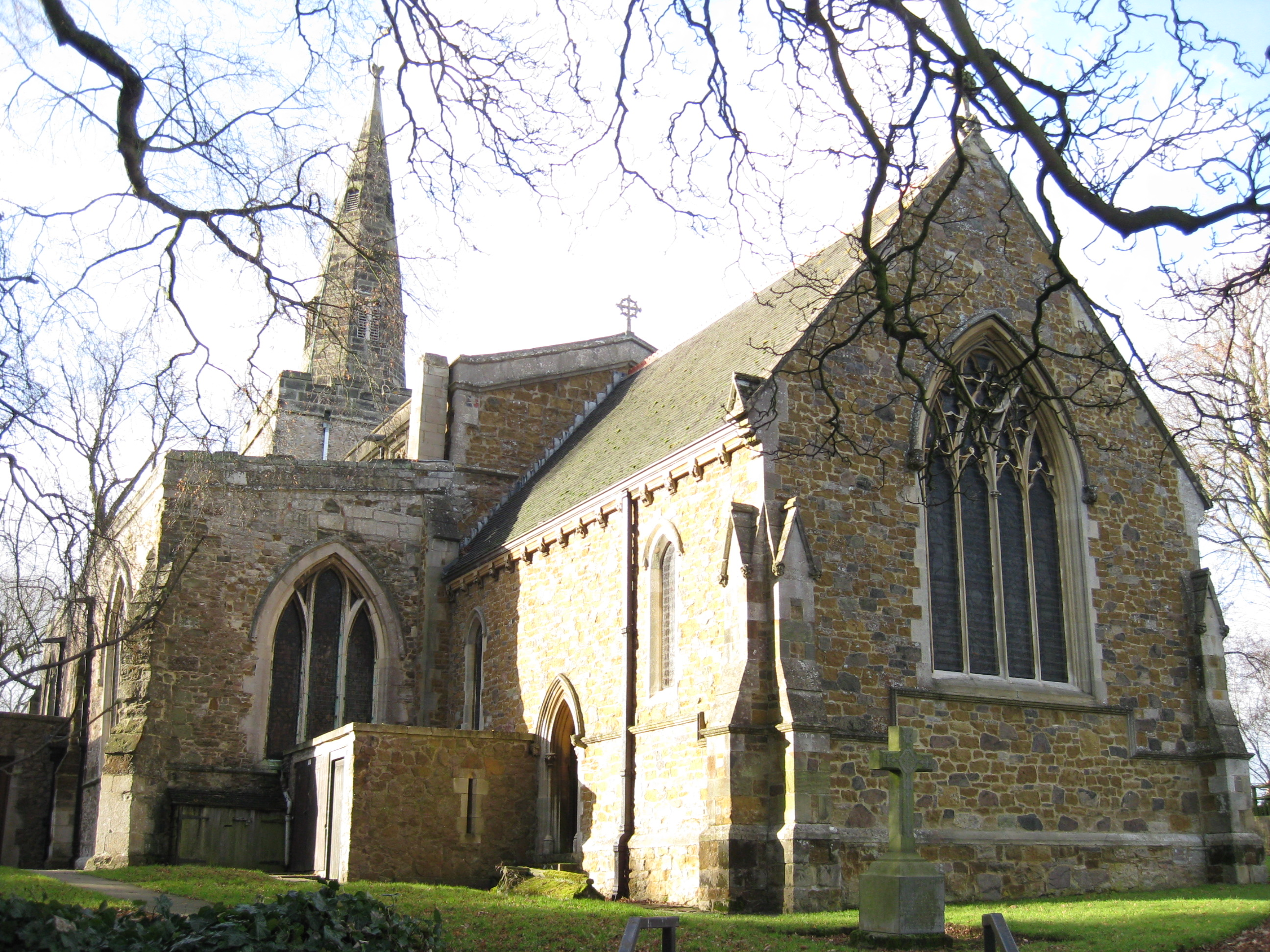 St Denys Church, Evington, Leicester.